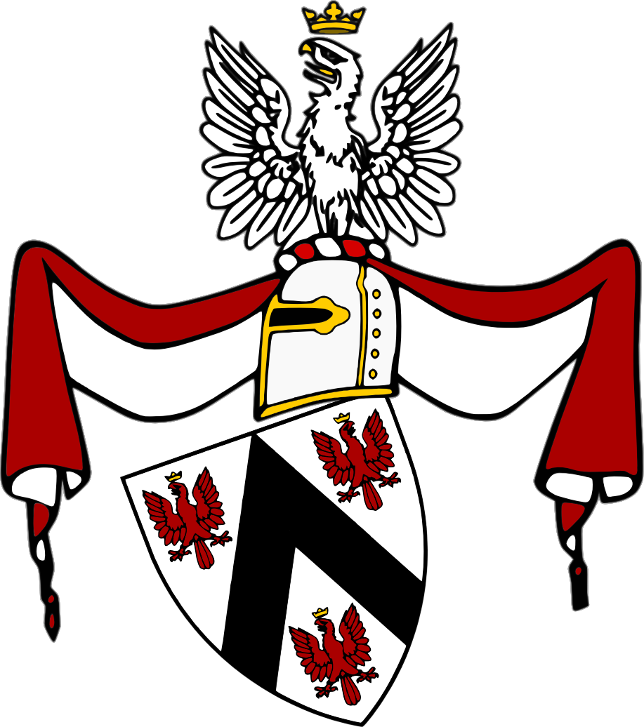 Coat of arms of the Zupanovic family